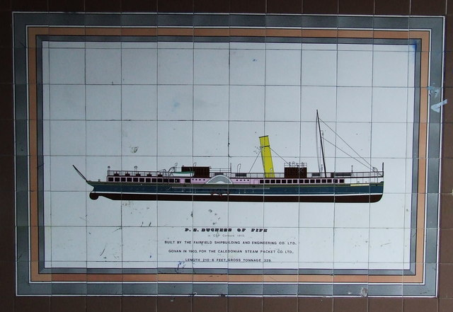 PS Duchess of Fife There are several of these tile mosaics in the pedestrian underpass from the Bullring car park to Wallace Square, Greenock. Each depicts a Clyde Steamer from the heyday of 'doon the watter' travel on the nearby River Clyde.